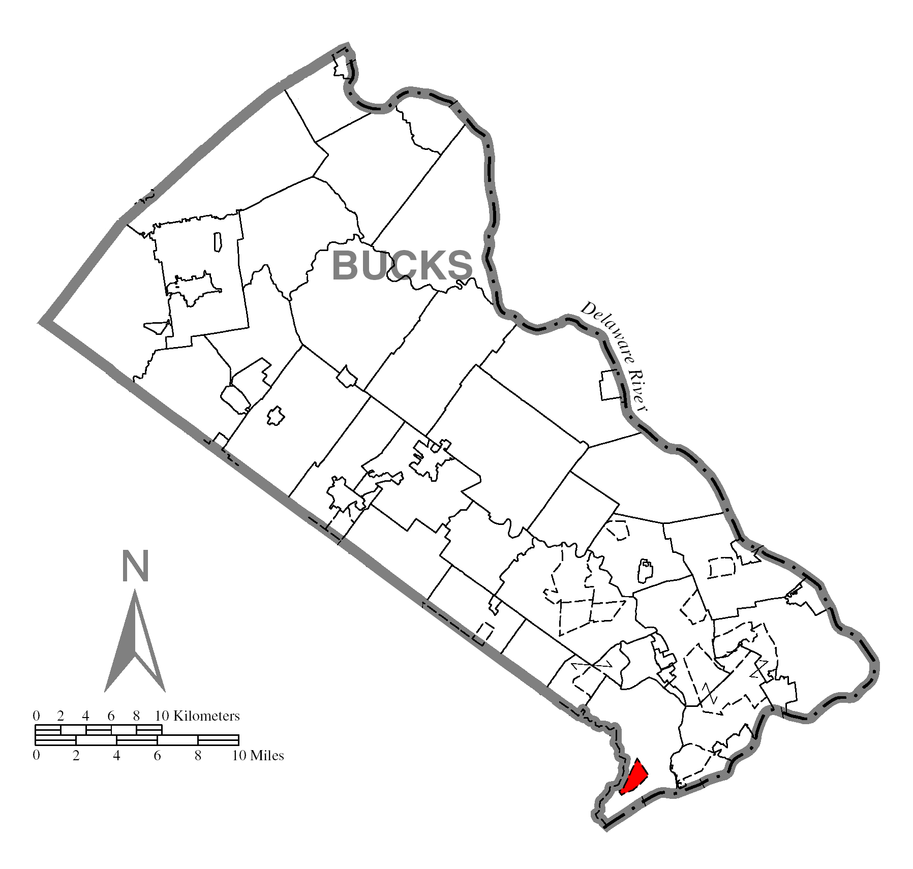 A map of Bucks County showing Cornwells Heights-Eddington, Pennsylvania (alternate) highlighted on the map.